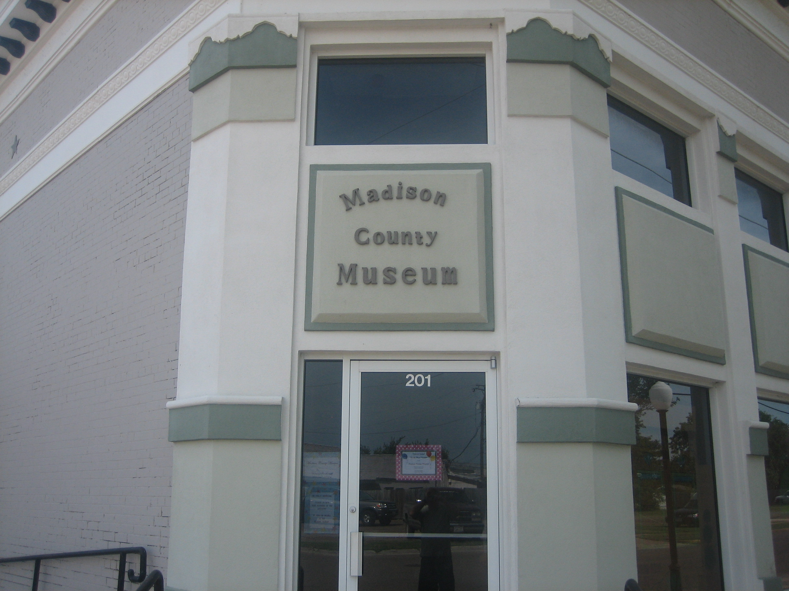 Madison County Museum, 201 N. Madison St. on west corner with Cottonwood St., Madisonville, Texas